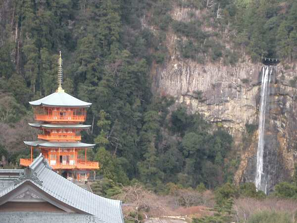 Waterfall of Nachi （熊野那智大社の大滝遠景）